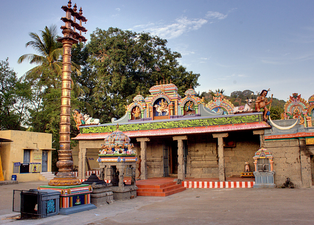 Trisulanathar temple In Trisulam,Chennai